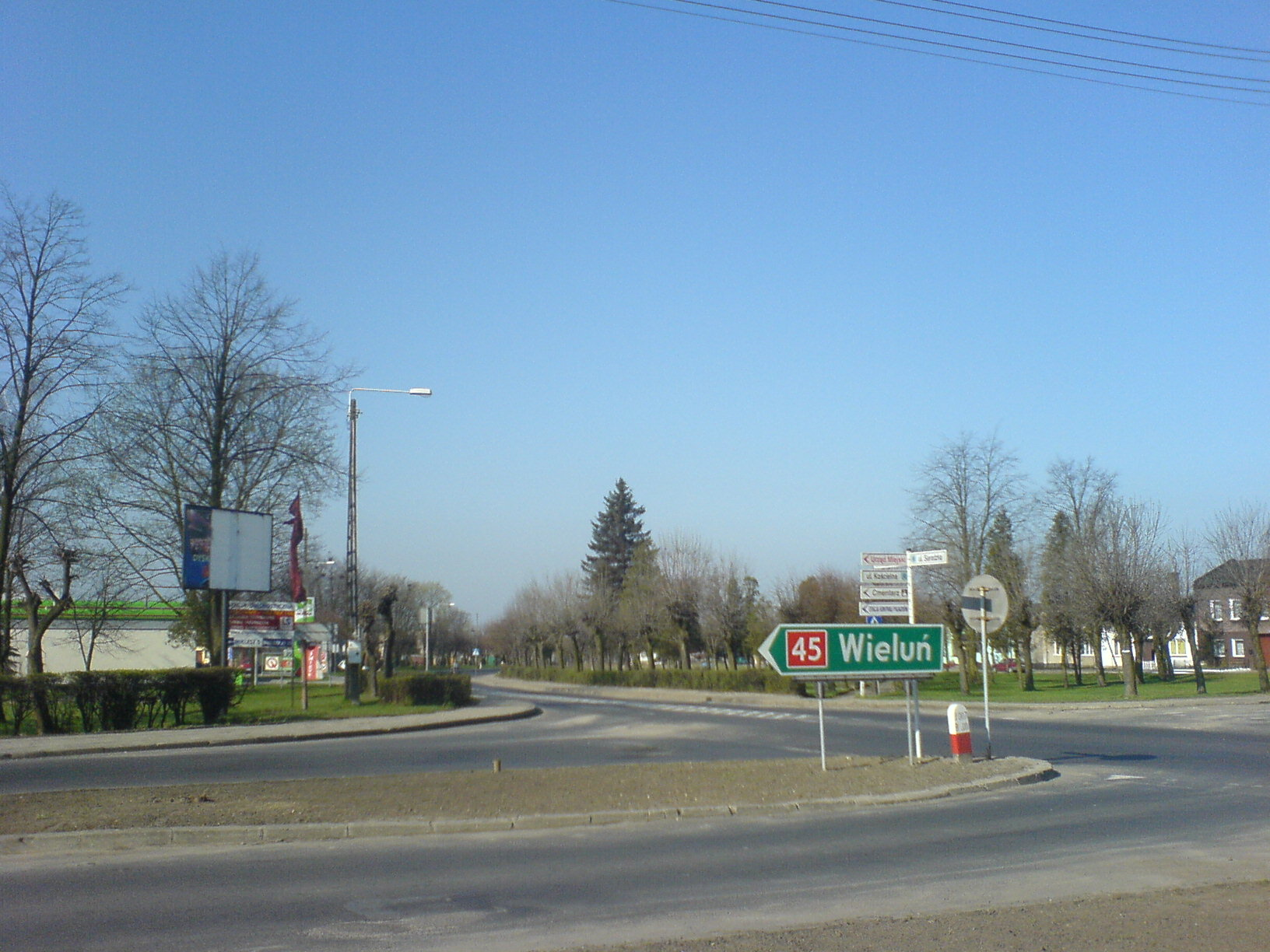 Złoczew (Poland, Łódź Voivodeship, Sieradz County)